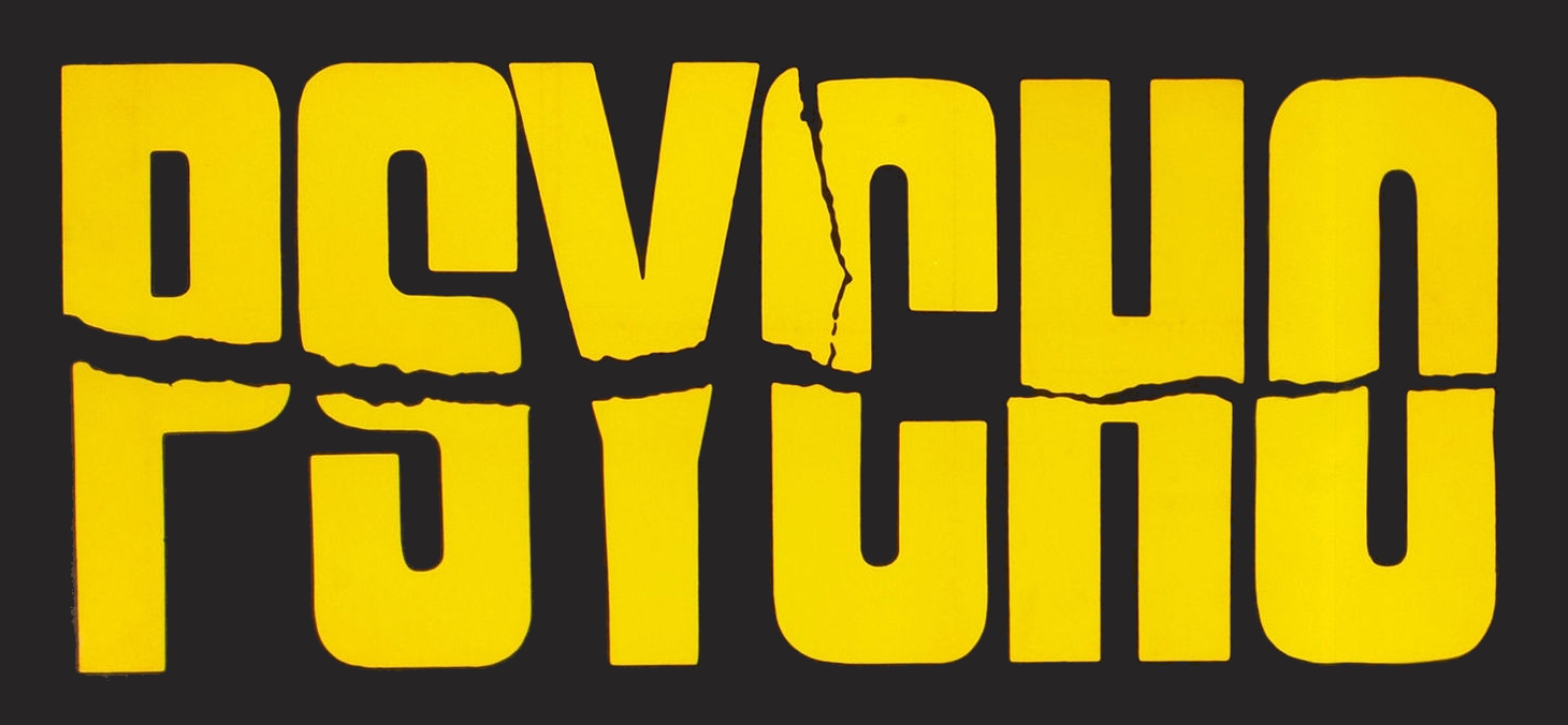 Official logo of the movie Psycho